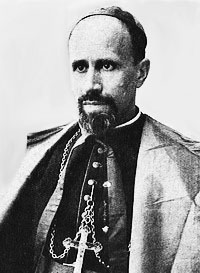 Monsignor Frederick Melendro. Born 07/18/1889 in Villasila de Valdavia (Palencia, Castile and León). He was ordained a priest in 05/03/1922. Chosen Prester Tit. Remesiana and Vicar Apostolic of Anking 17 02 1930. Consecrated 06/01/1930 by Monsignor Huarte in Anking, was elected Archpriest Anking 04/11/1946. He died on 14/10/1978.